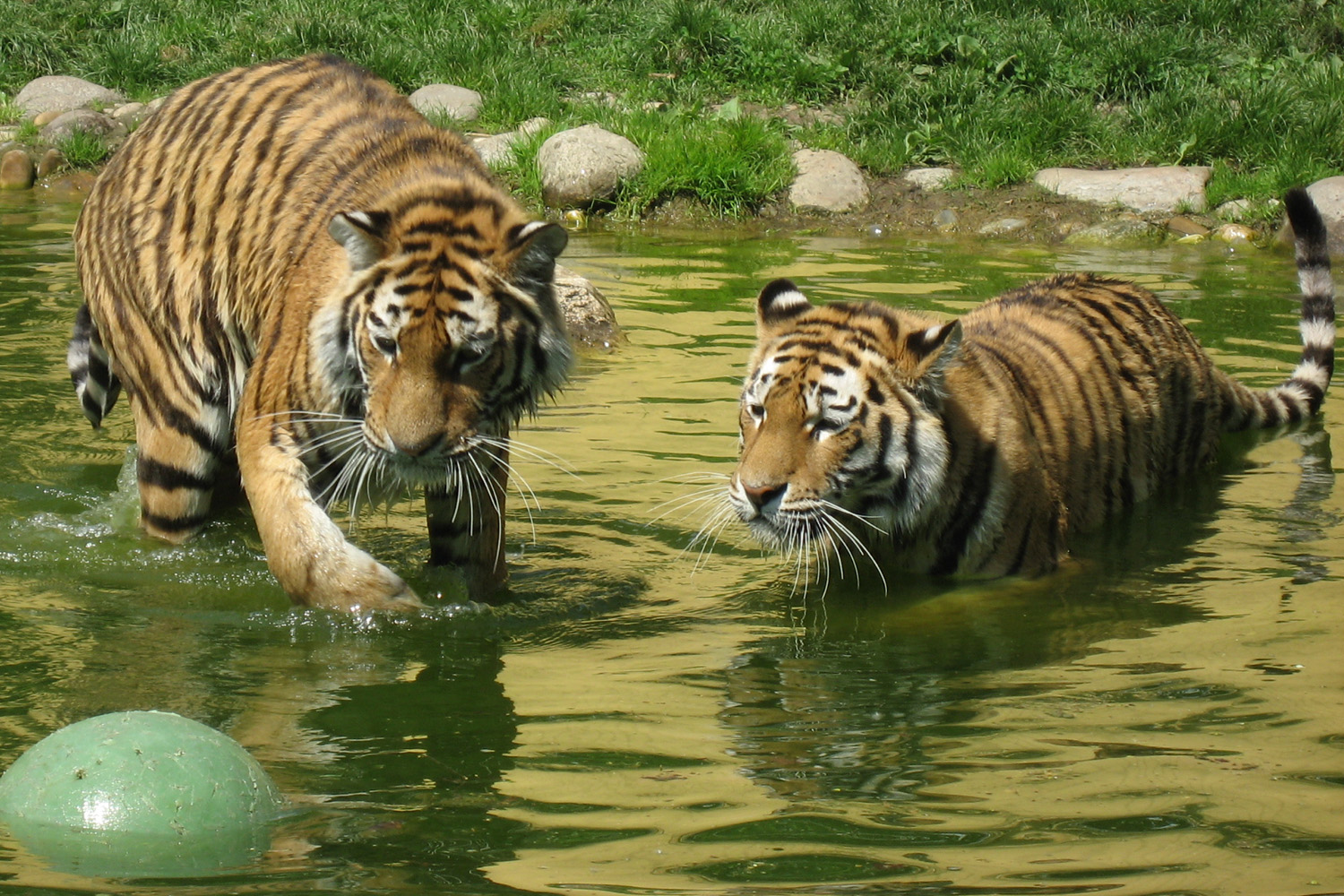 sibirian tiger in the Tiergarten Schönbrunn in Vienna.